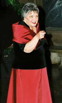 Benigna Jaskulska